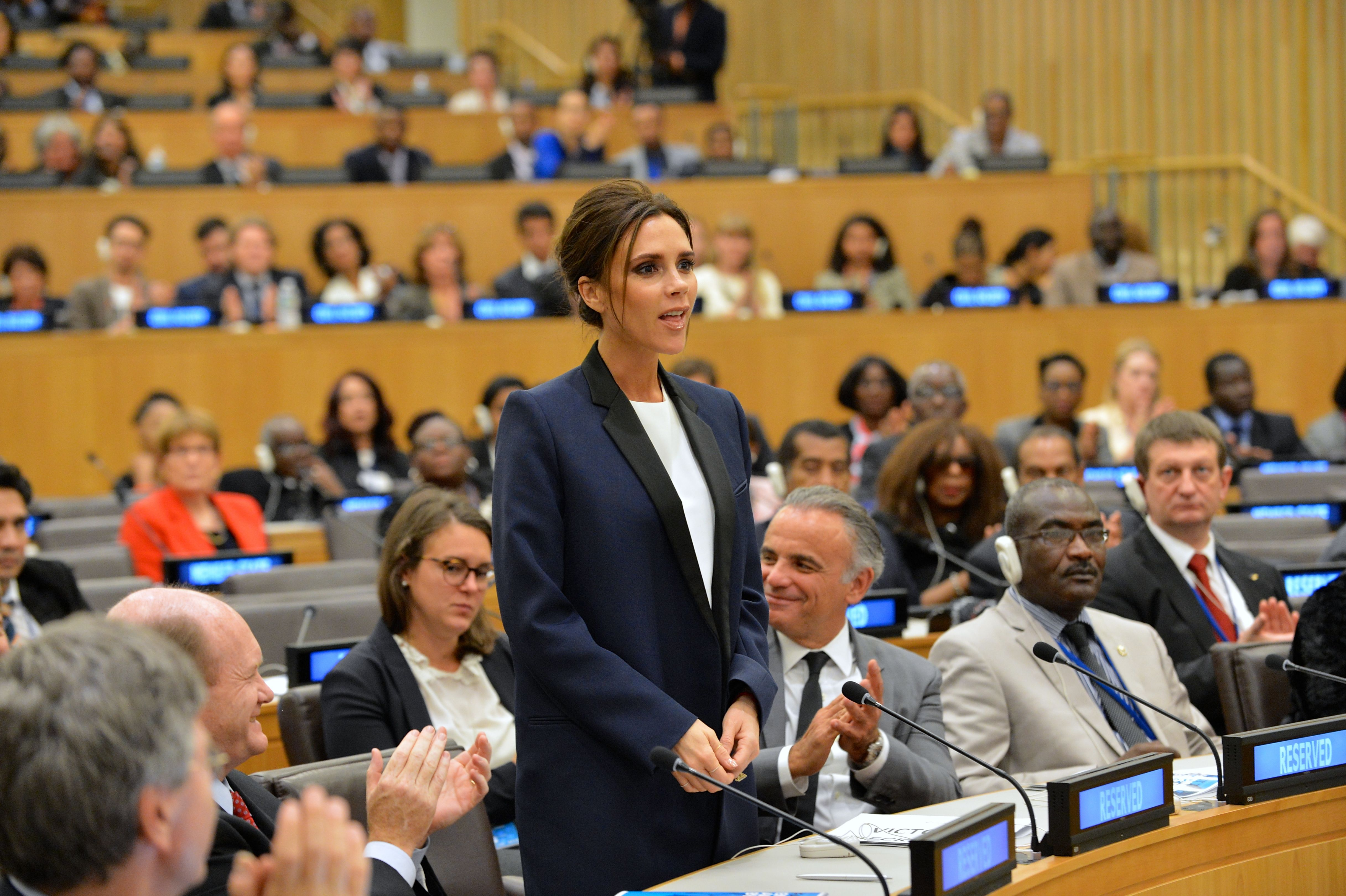 U.S. Secretary of State John Kerry listens as UNAIDS International Goodwill Ambassador Victoria Beckham addresses the Ending AIDS by 2030 event at the United Nations headquarters in New York City on September 25, 2014. The Secretary is participating in events in conjunction with the 69th Session of the UN General Assembly. [State Department photo/ Public Domain]